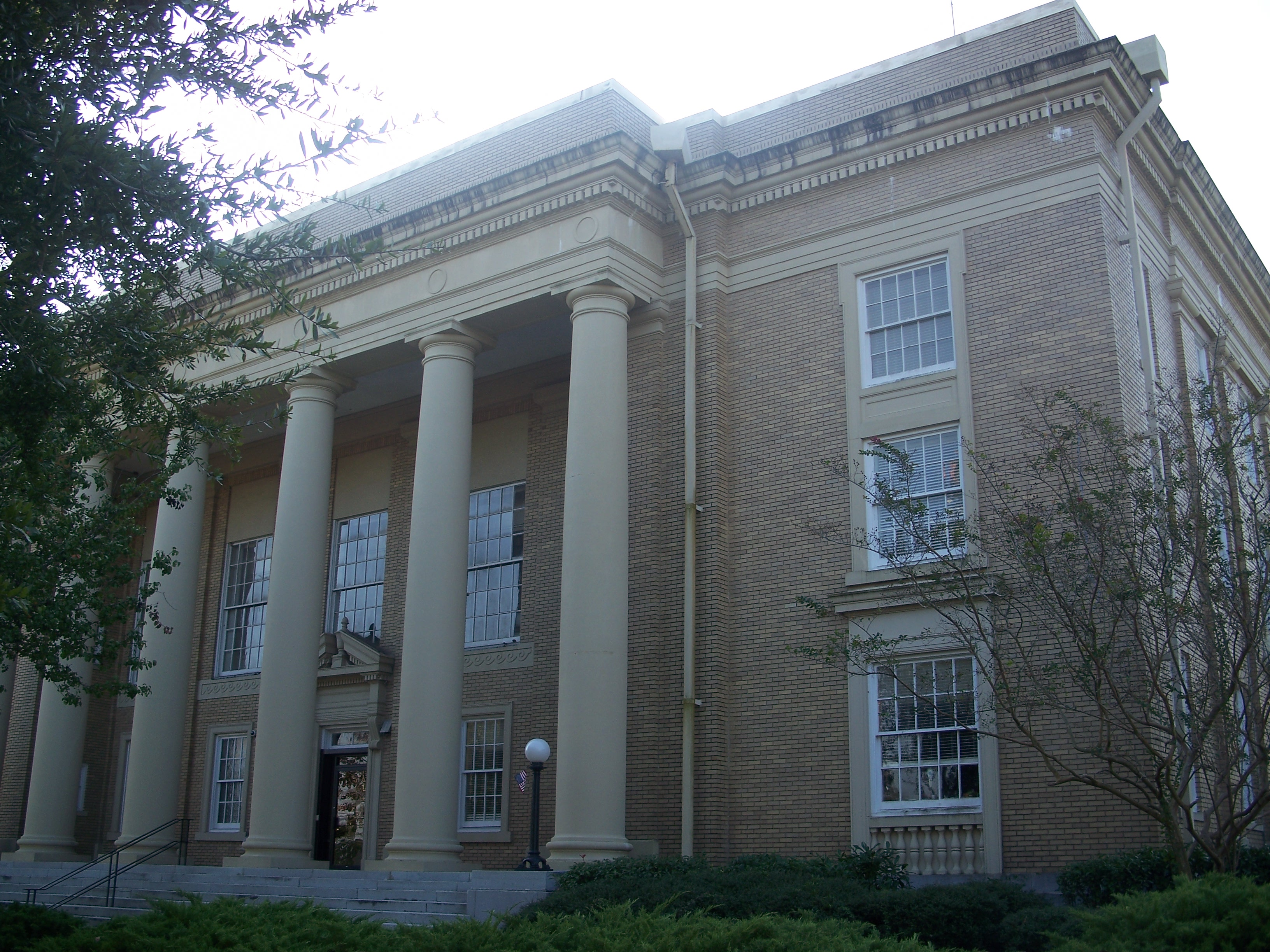 Washington County Courthouse, in Chipley, Florida